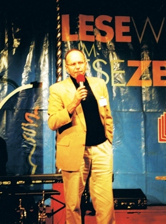 Bookfair Frankfurt/Main - Lesezelt, Klaus Servene